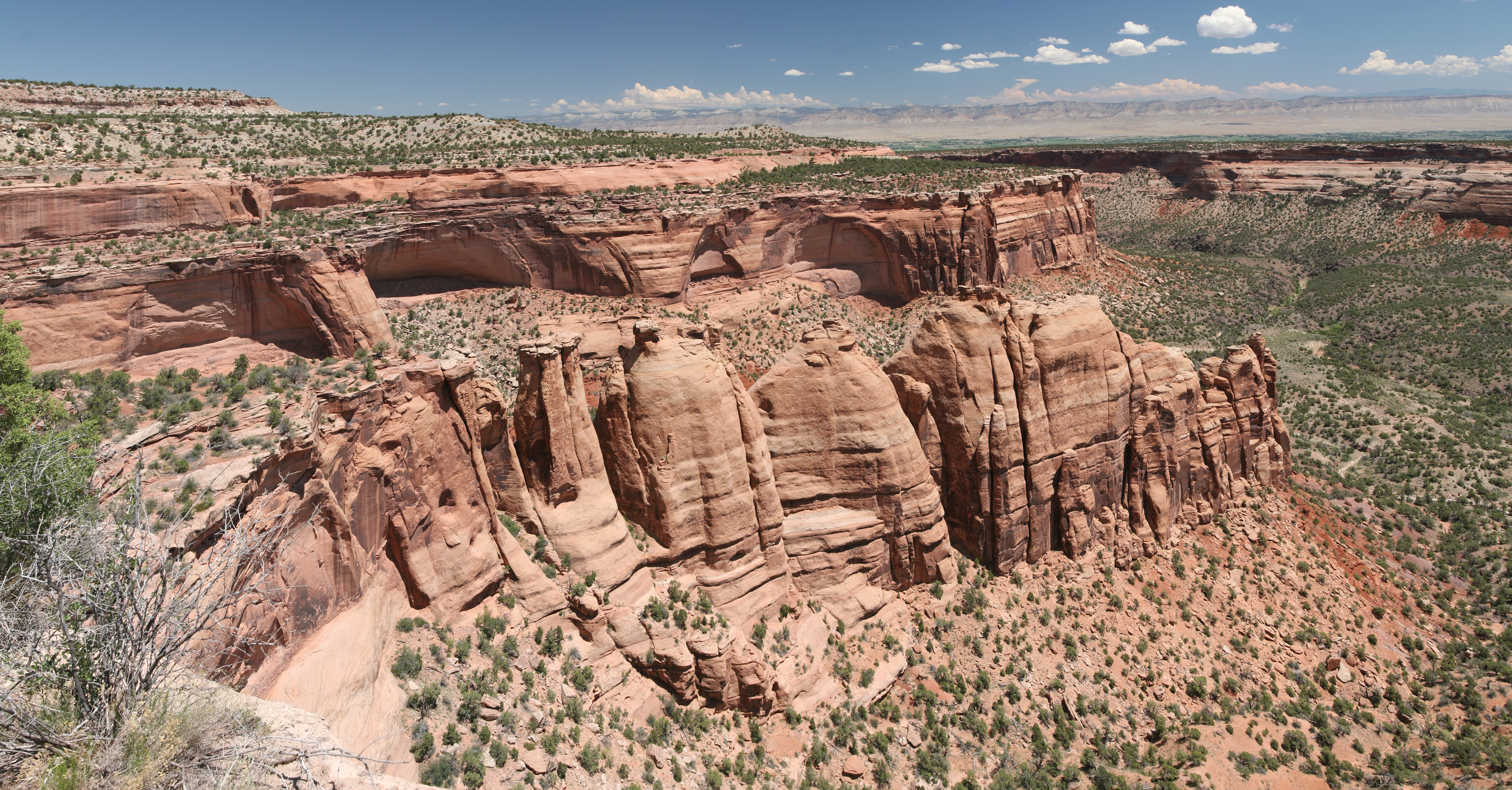 Coke ovens in Colorado National Monument